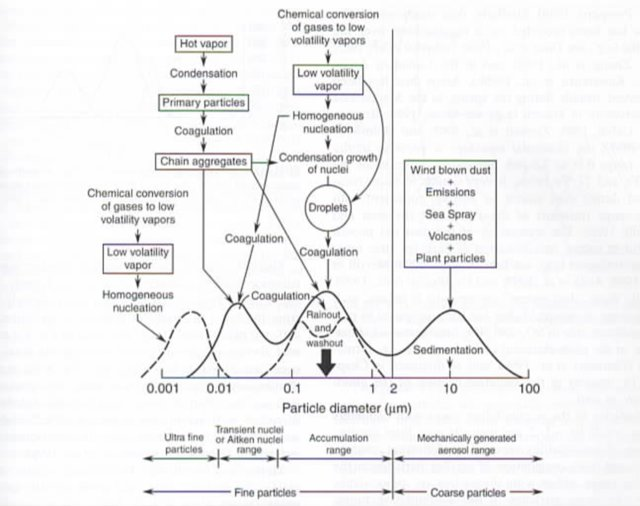 Figure was adapted by Barbara J.Finlayson-PittsJames N.PittsJr. in their book Chemistry of the Upper and Lower Atmosphere.